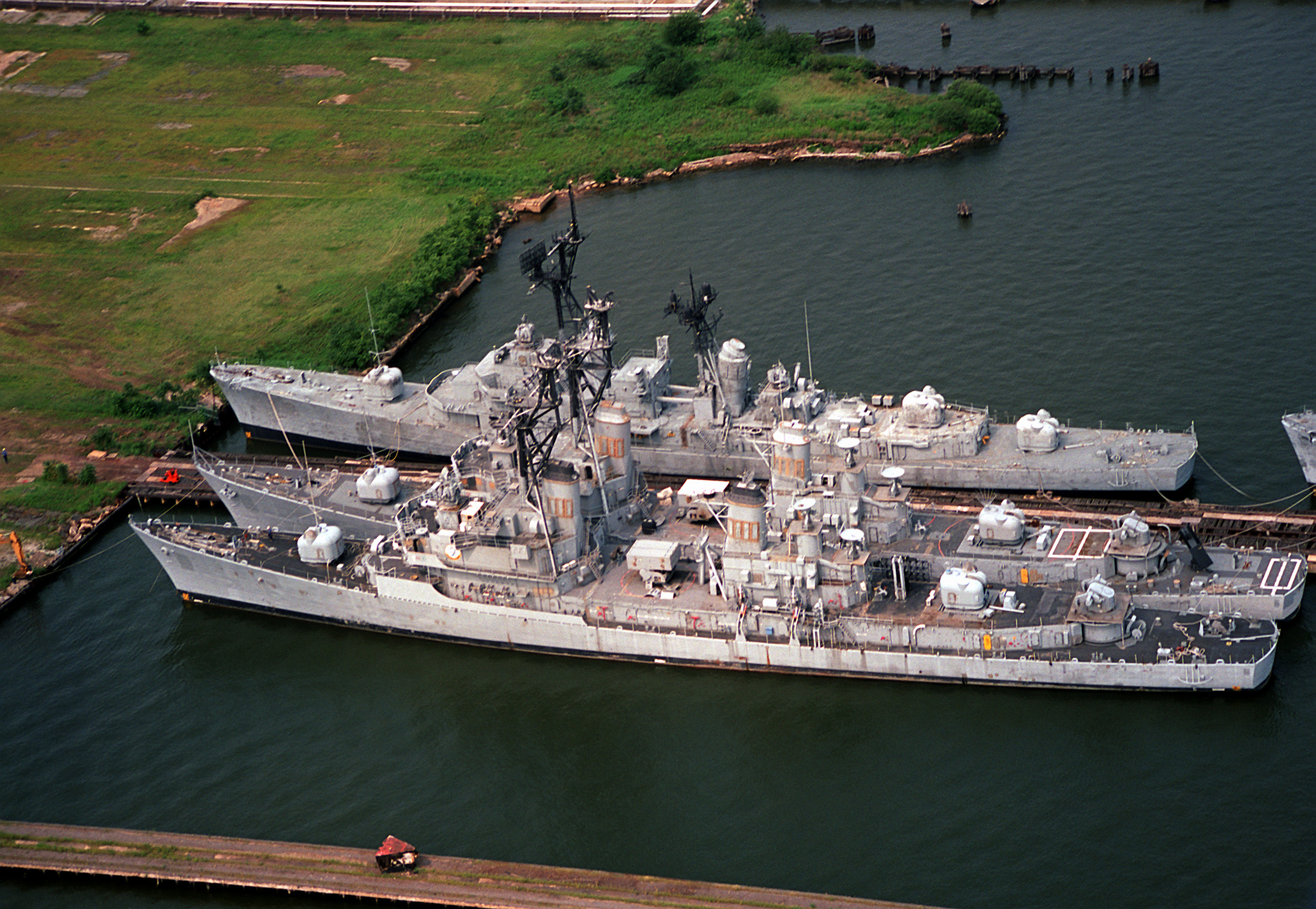 An aerial view of the Baltimore Fairfield Marine Terminal, Maryland (USA), showing three destroyers tied up awaiting scrapping on 25 August 1994. Visible are (front to back): USS Claude V. Ricketts (DDG-5), USS Lawrence (DDG-4) and USS Bigelow (DD-942).